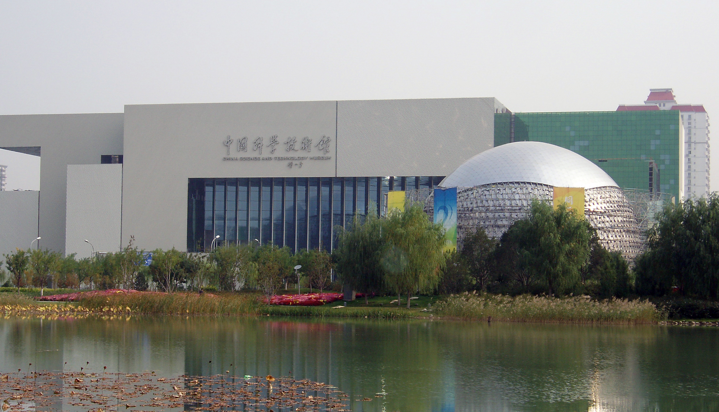 China Science and Technology Museum in Beijing.